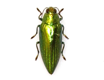 GLAM - Chrysochroa purpureiventris Cut-out from original (Boite Buprestidae Asie sud est GLAM muséum Lille 2016.JPG) shown below